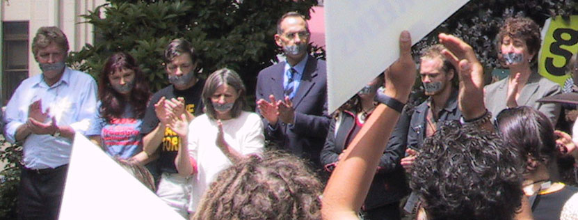 Gunns 20 protest rally, Franklin Square, Hobart, 15 December 2004. Some members of the "Gunns 20" - with tape stuck to their faces.